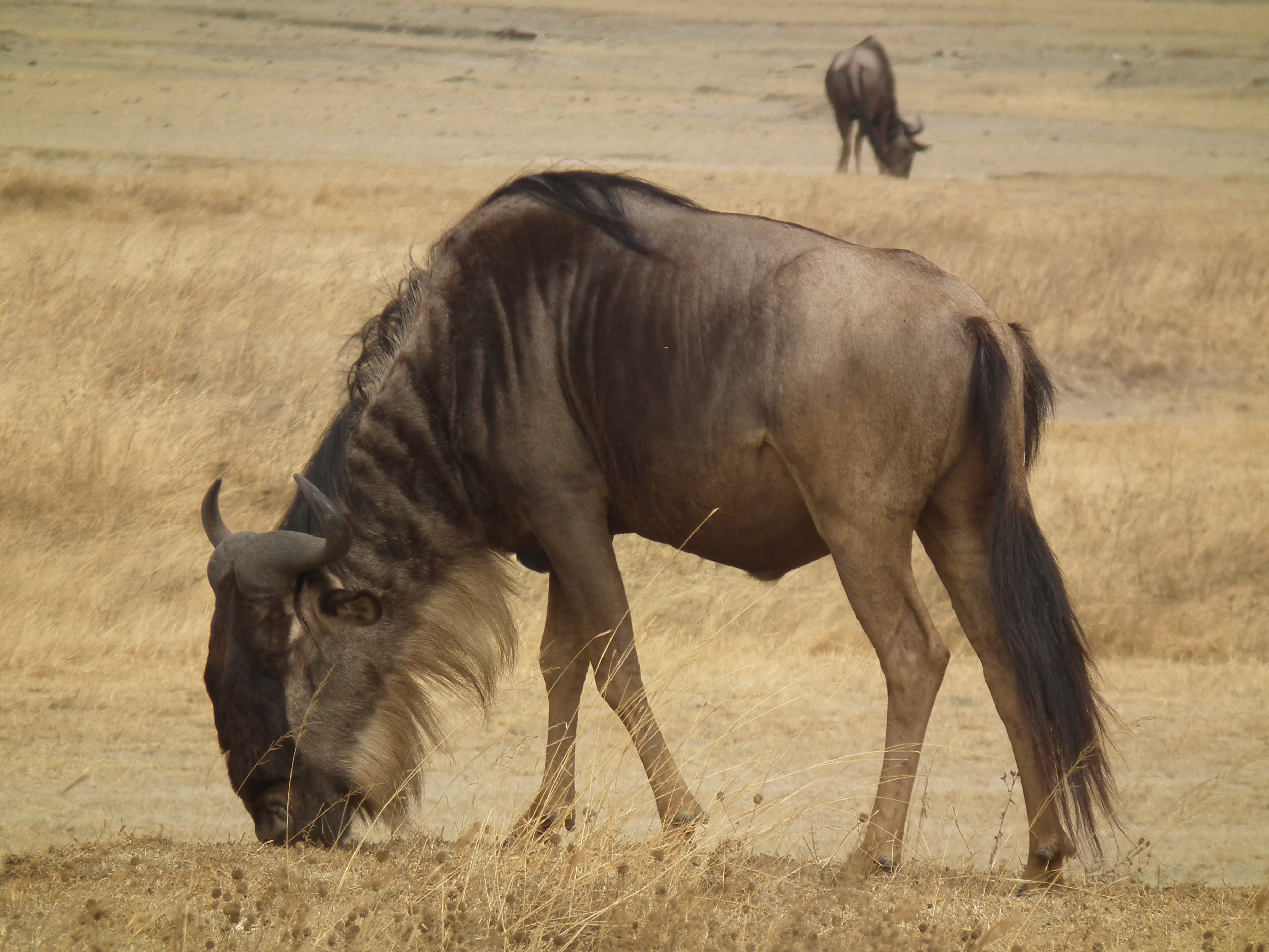 Wildebeest Connochaetes taurinus, picture taken in Tanzania